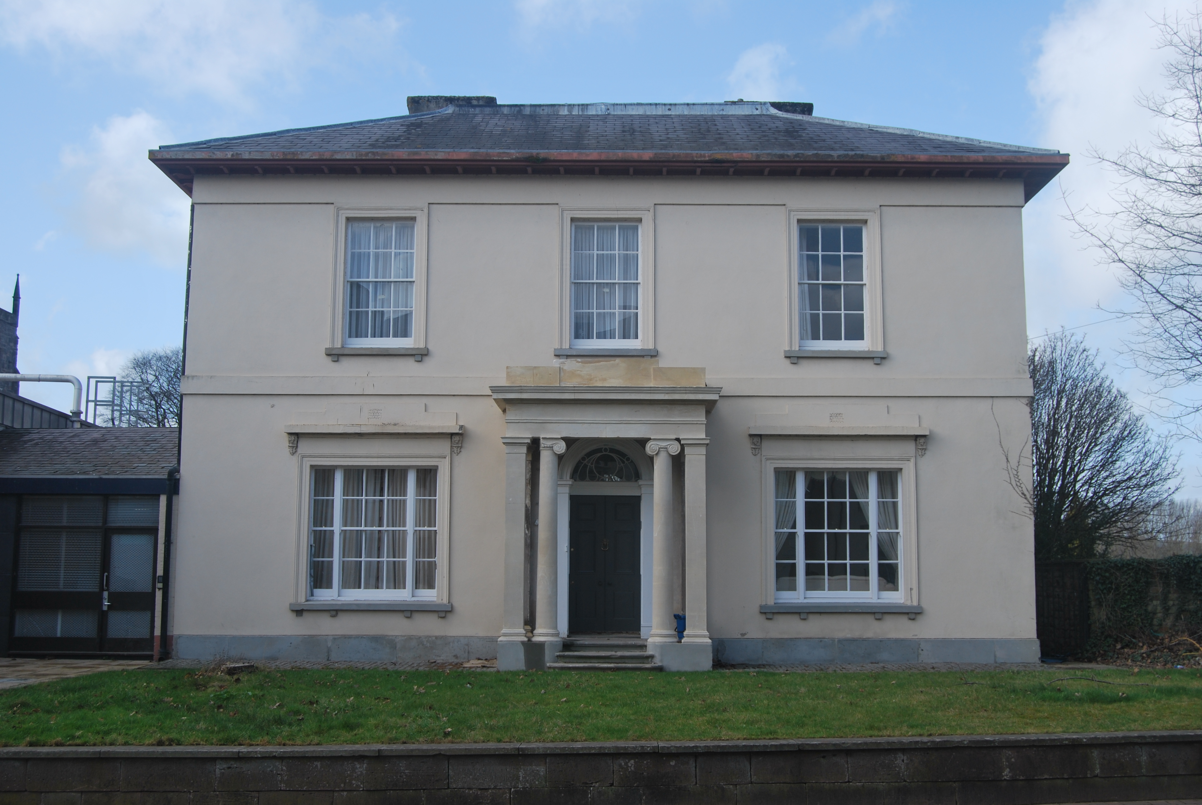 Monmouth, Oak House Front